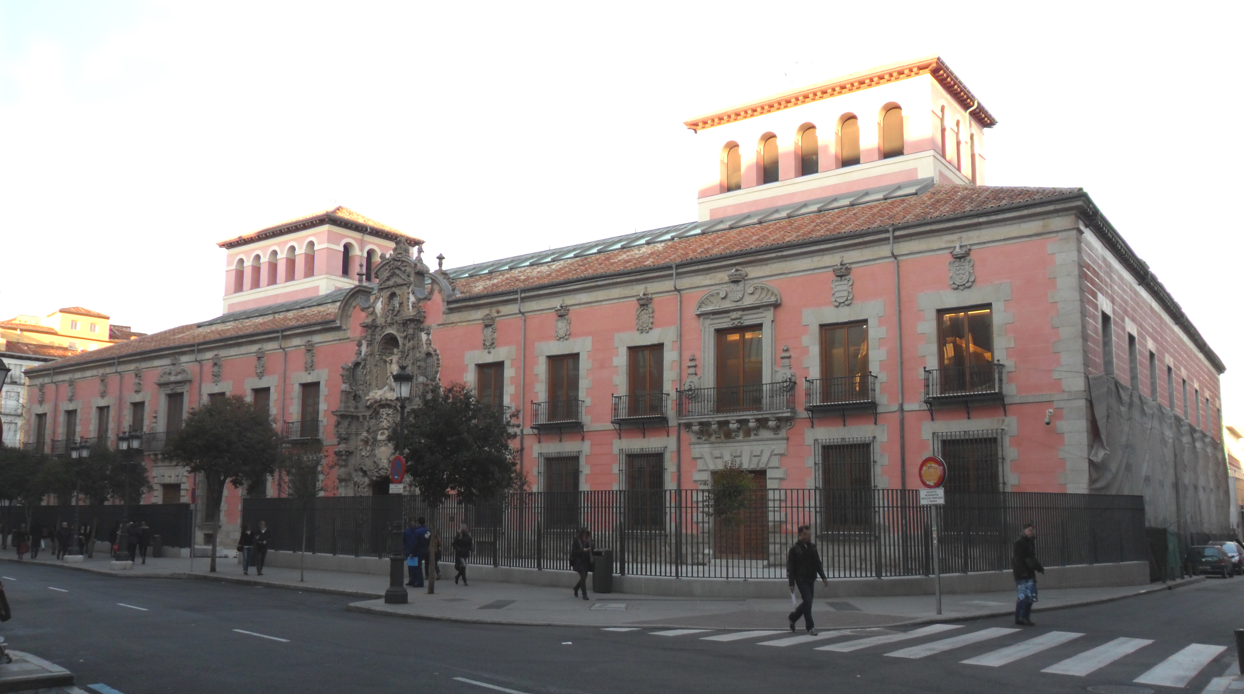 Façade of the History Museum of Madrid (Spain), under renovation.